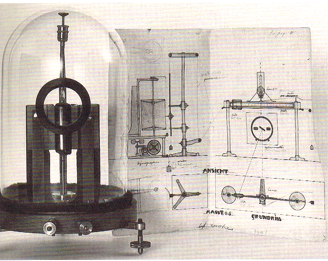 A galvanometer, used by Carl Jung in 1904/1905 in Burghözli clinic (drafts in background made by Jung himself)